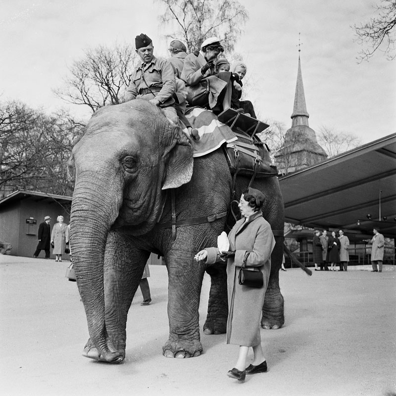 Visitors to the Stockholm zoo "Skansen" ride an elephant together with elephant caretaker Sven Borg. Photo taken in May 1956.